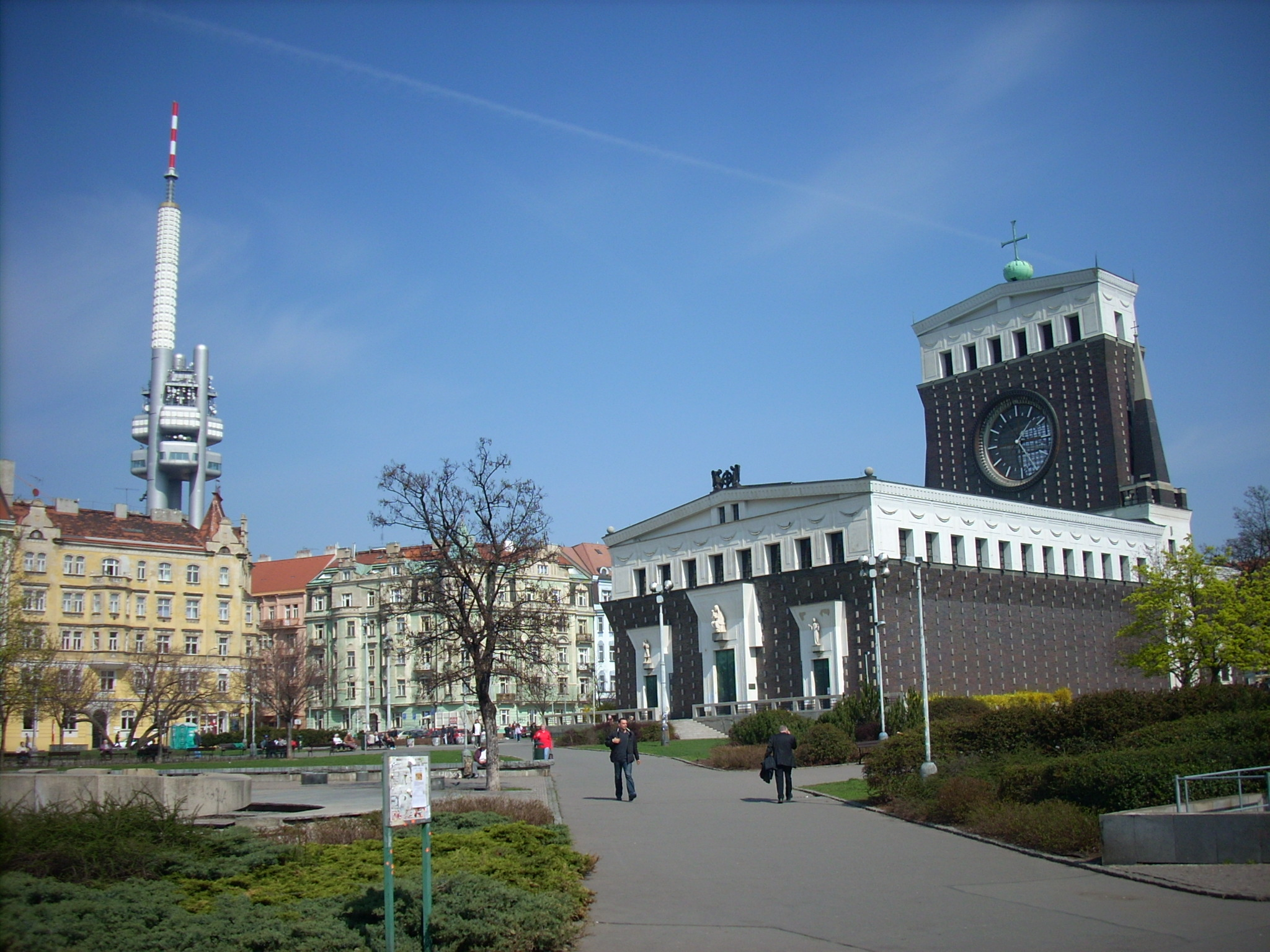 Church of the Sacred Heart (Prague-Vinohrady)